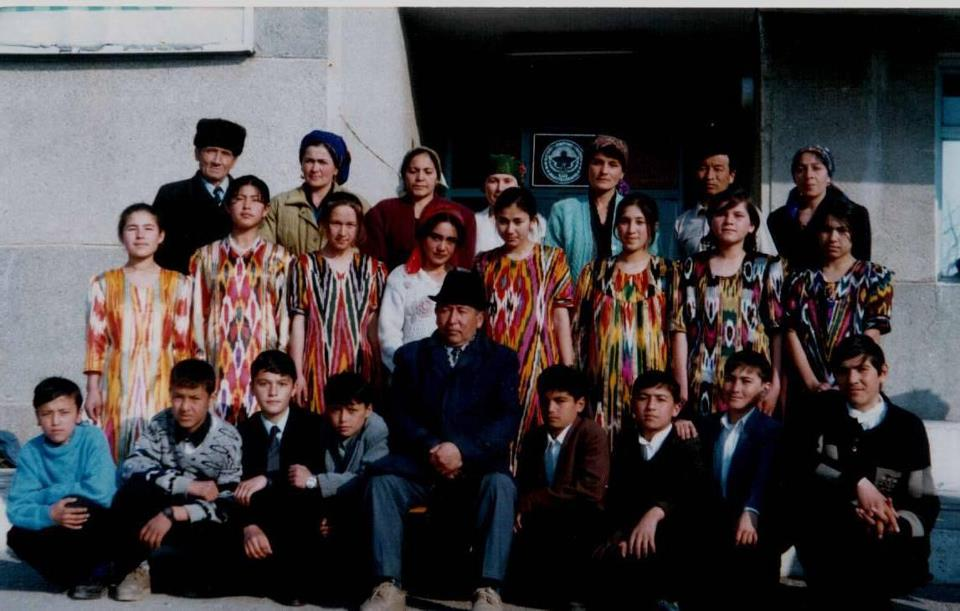 A group photograph of eighth graders taken during a Nowruz celebration at the Uzbek Gymnasium located in Isfana, Kyrgyzstan. In 2003, this group of students became the first graduates of the school. Instructors: (in the back row, from left to right): Omonboy Umarov, Mavluda Qoʻldosheva, Omina Bozorova, Mohira Mahmadaminova, Malika Mirazizova, Gayipnazar Abdurasulov, Sanobar Hojiboboyeva; (in the middle row, fourth from left) Nilufar Qosimova; (first row, fifth from left) principal Shokirjon Toʻychiyev. The original photograph was taken in March 2000. This picture a scanned copy of the original.